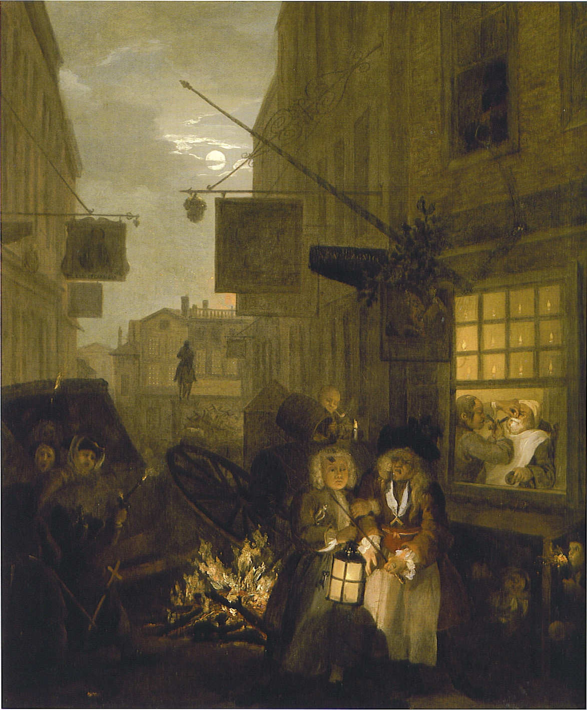 Night, the fourth painting from William Hogarth's Four Times of the Day (1736).